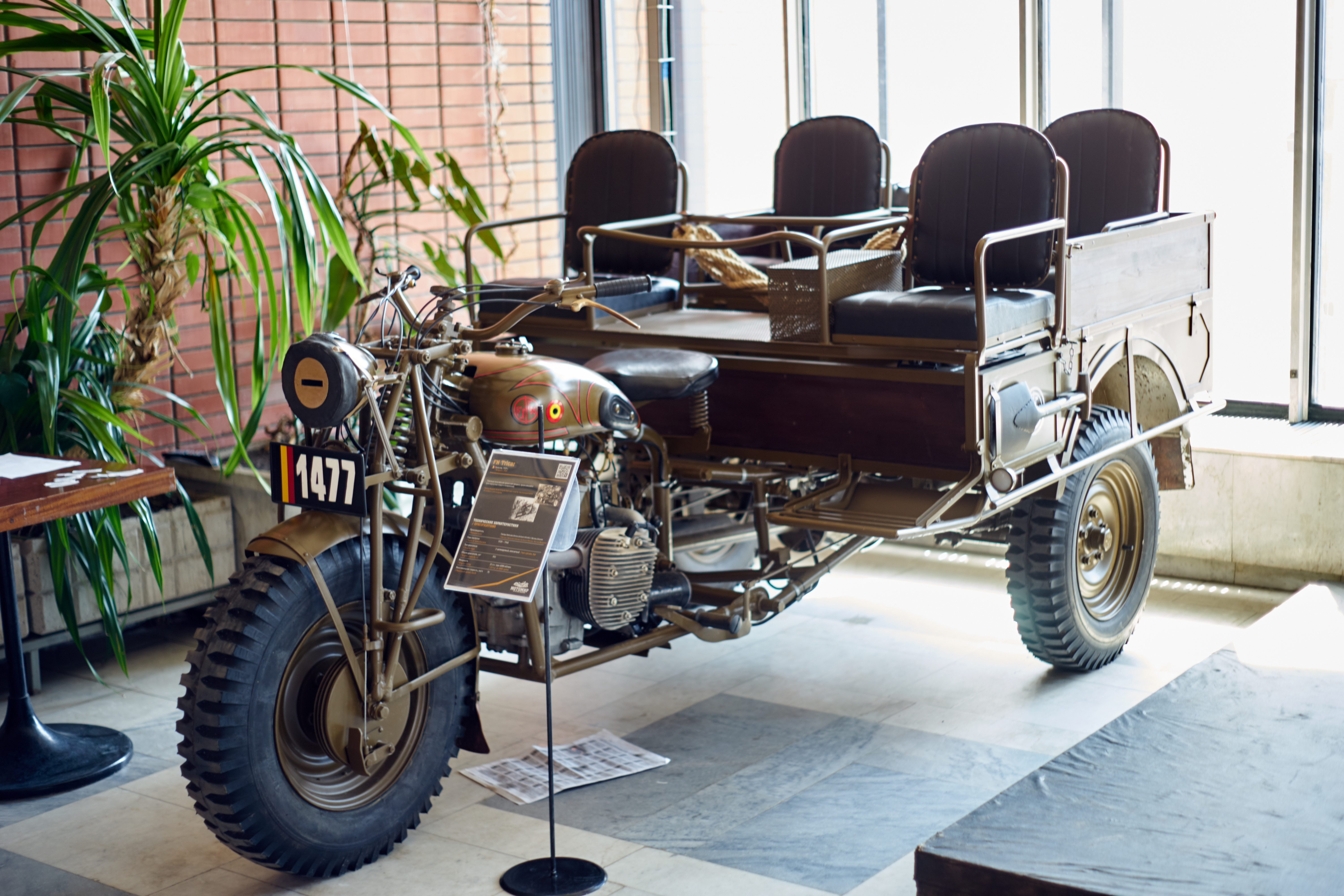 FN Tricar, 1939. Musem "Motors of War", Russia, Samara